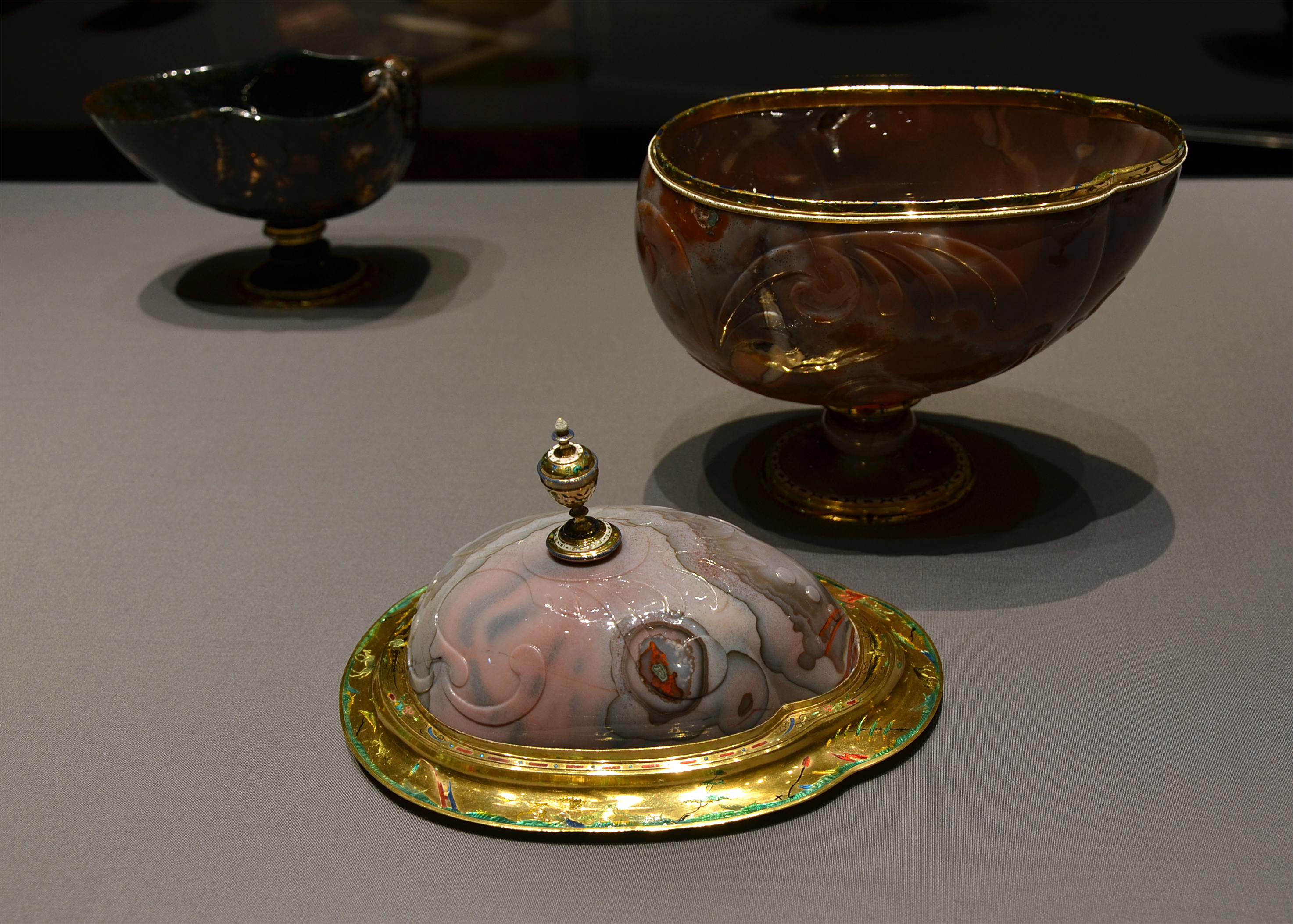 Lidded cup, by Ottavio Miseroni (1567-1624) for the glyptic, and Jan Vermeyen for the mounting. Prague, ca 1603-1607. Agate, gold, enamel. Now in the Kunsthistorisches Museum in Vienna.